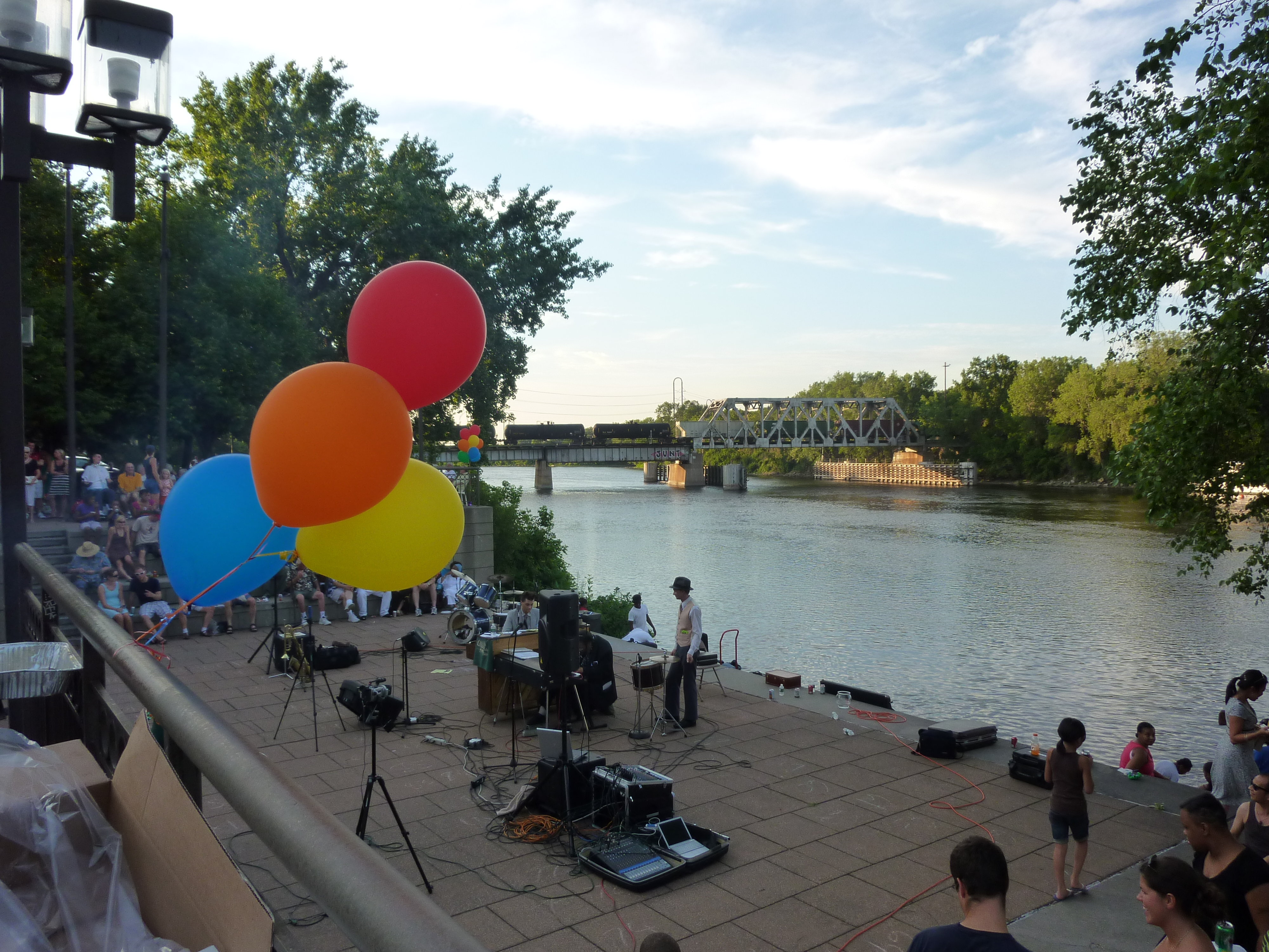 Cadillac Kolstad, Cornbread Harris and Johann Swenson, playing National Night Out (2010) in Minneapolis, Minnesota